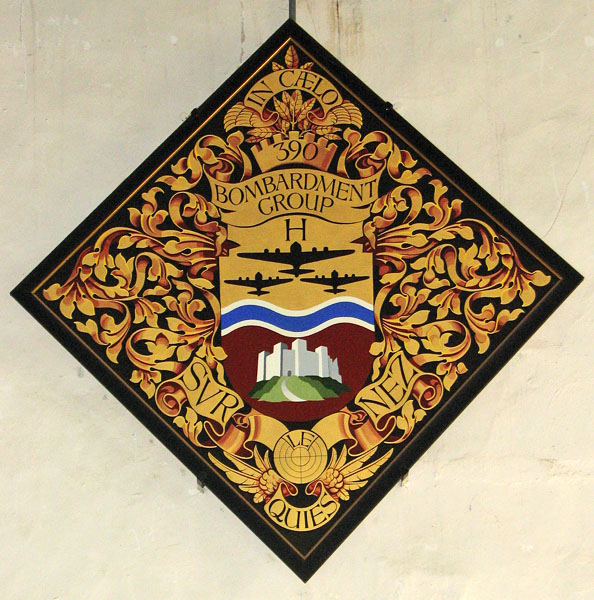 Modern hatchment commemorating the 390 Bombardment Group of the US Air Force which was stationed in nearby Parham in WWII.